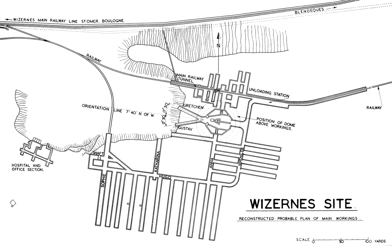 Reconstructed probable plan of the main workings at the Wizernes site